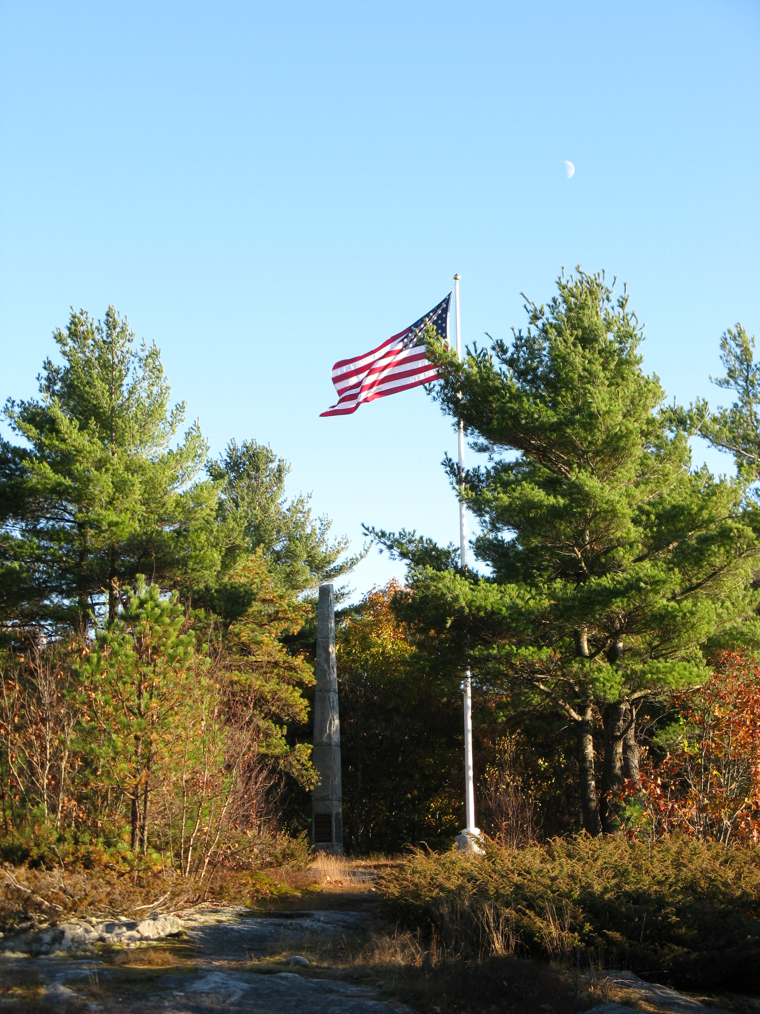 Peace Obelisk and Flag